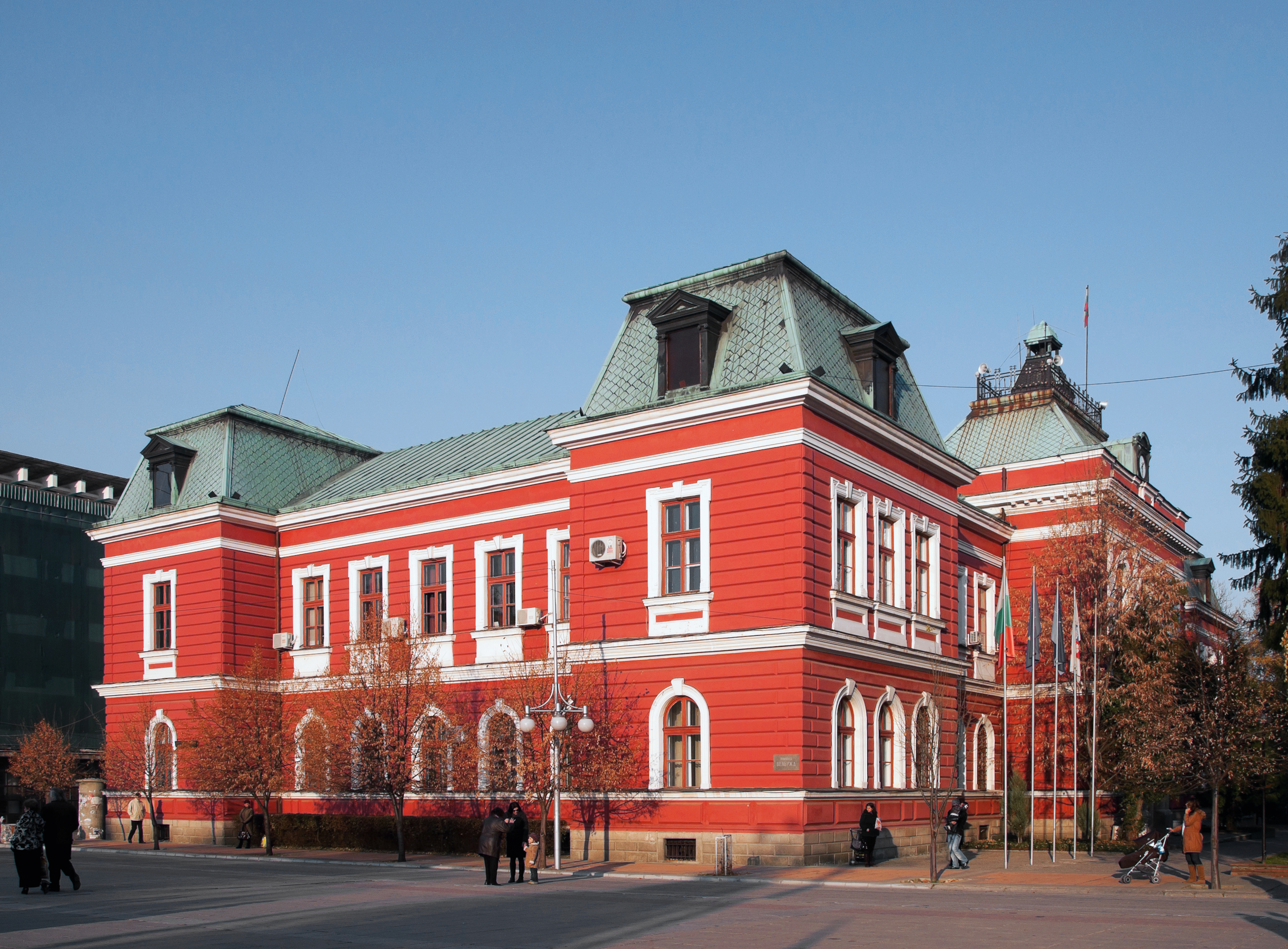 The West facade of the Town Hall in Kyustendil, Bulgaria.